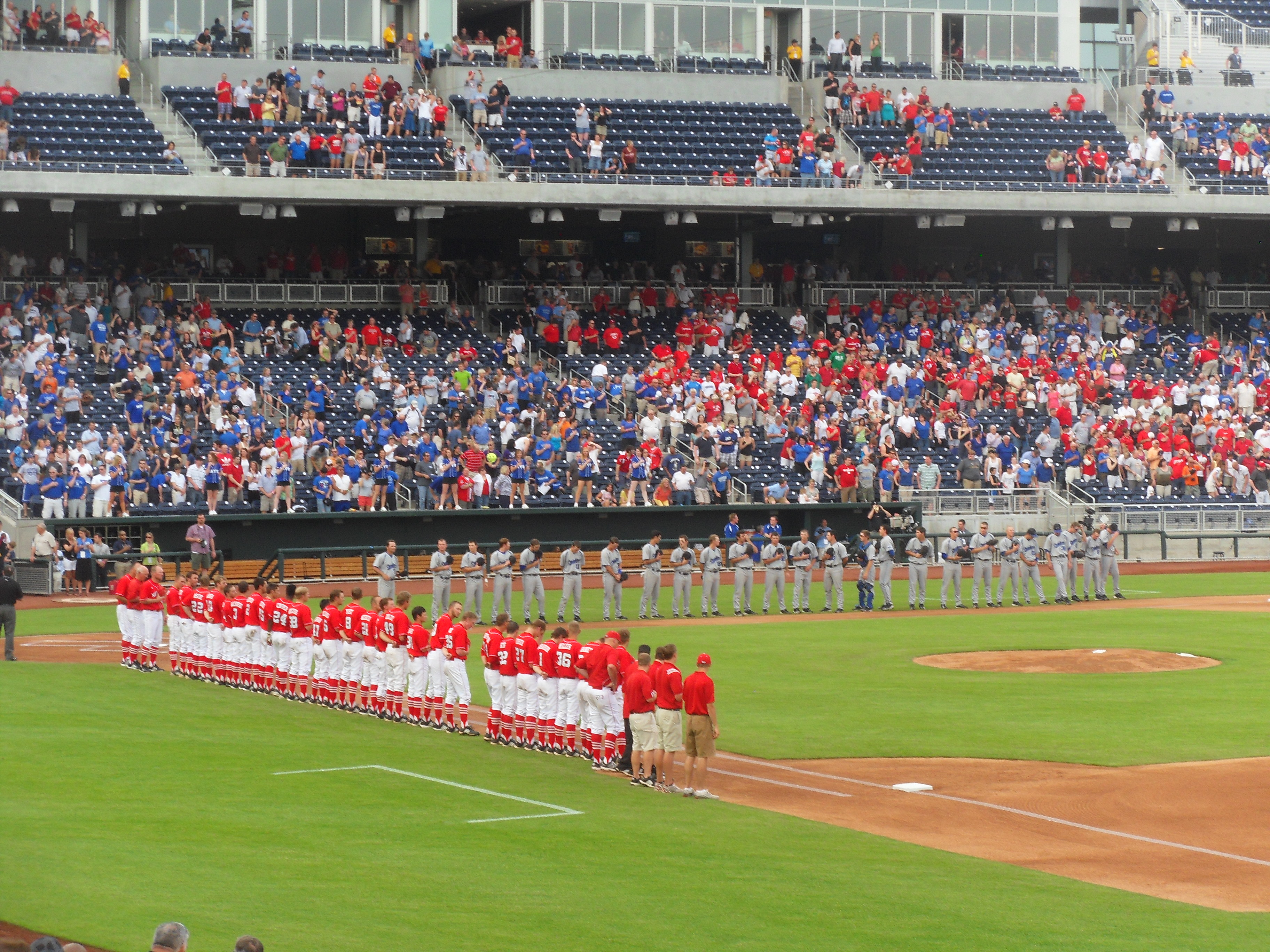 Nebraska Cornhuskers and Creighton Bluejays baseball teams lined up for the national anthem at TD Ameritrade Park in 2011.